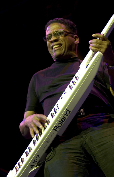 Herbie Hancock Quartet at the Round House, Camden